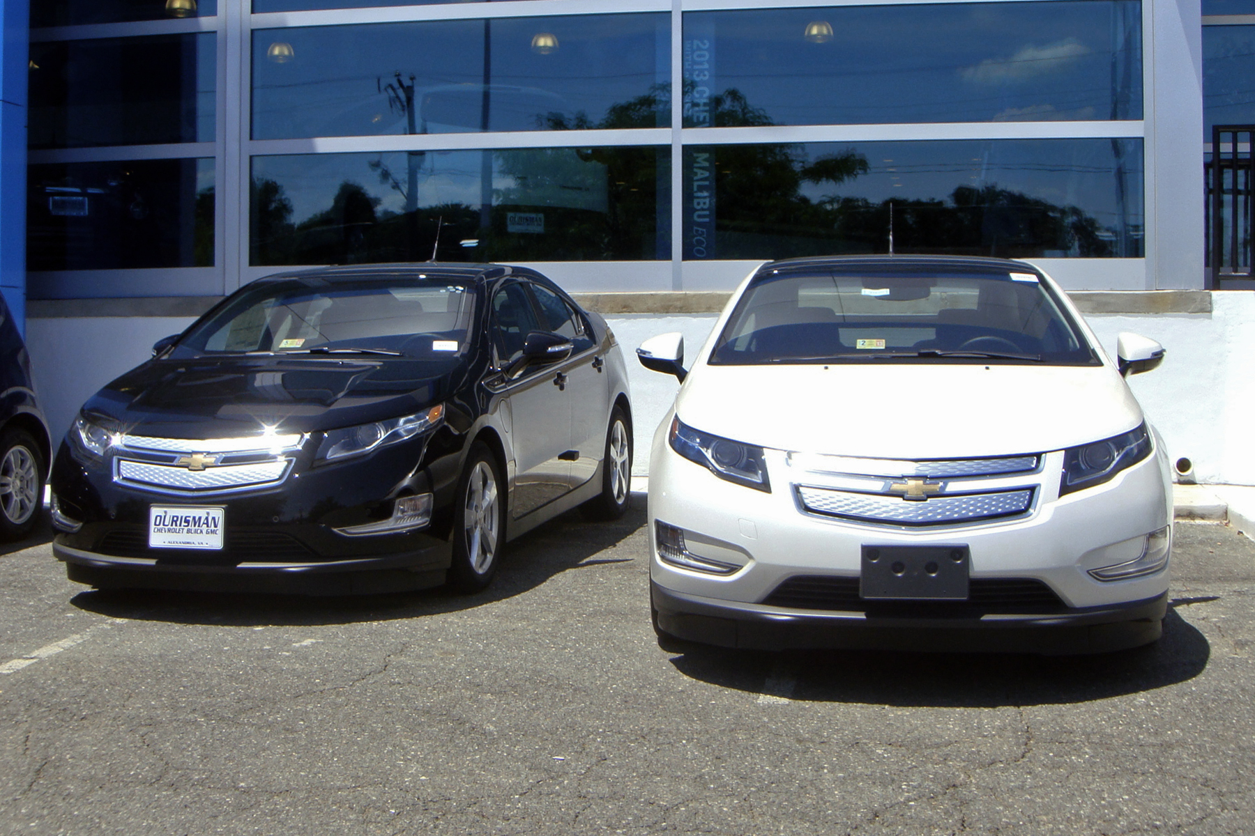 Two 2012 Chevrolet Volt plug-in hybrids in Alexandria, Virginia, US